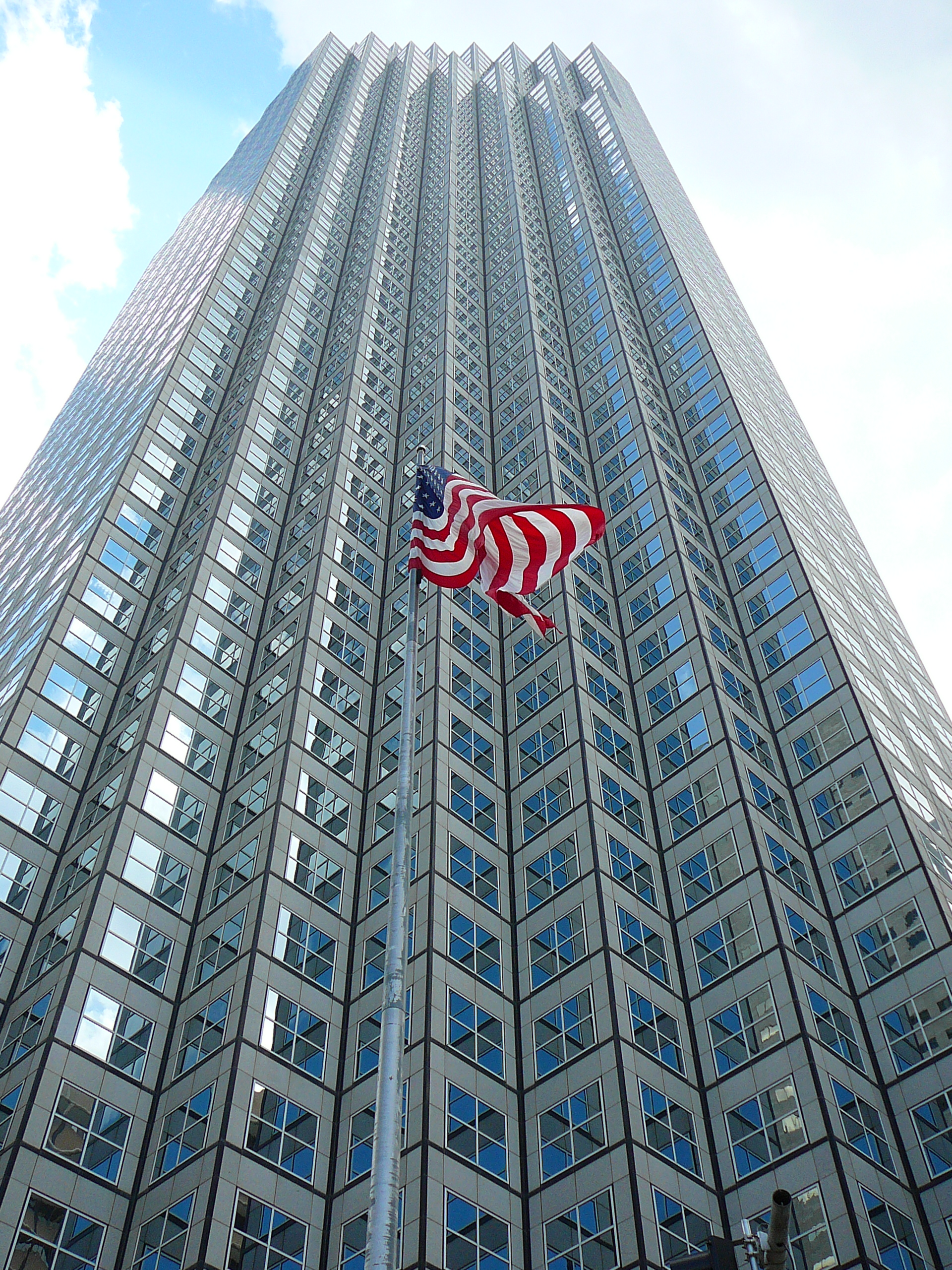 Digital photo taken by Marc Averette. Closeup view of the Wachovia tower in downtown Miami on 5/10/2008